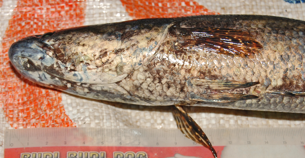 Channa lucius, TL 330mm (SL 290mm). Ventral view of head and body. From Mentaya Hulu, Central Kalimantan, Indonesia.